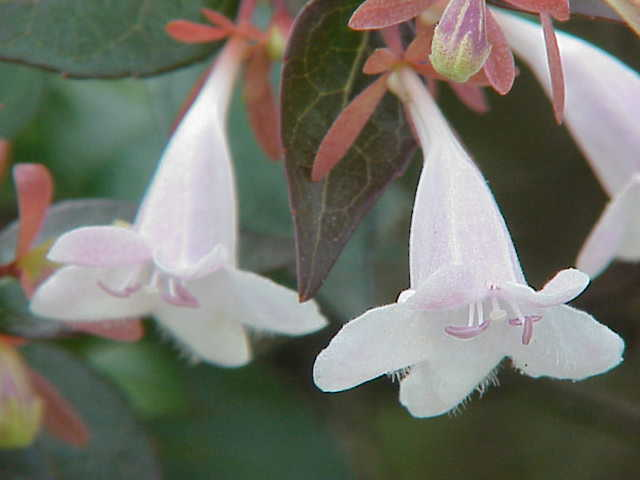 Species: Abelia floribunda Family: Caprifoliaceae Image No. 2